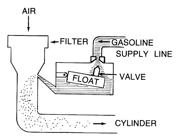 line art drawing of carburetor